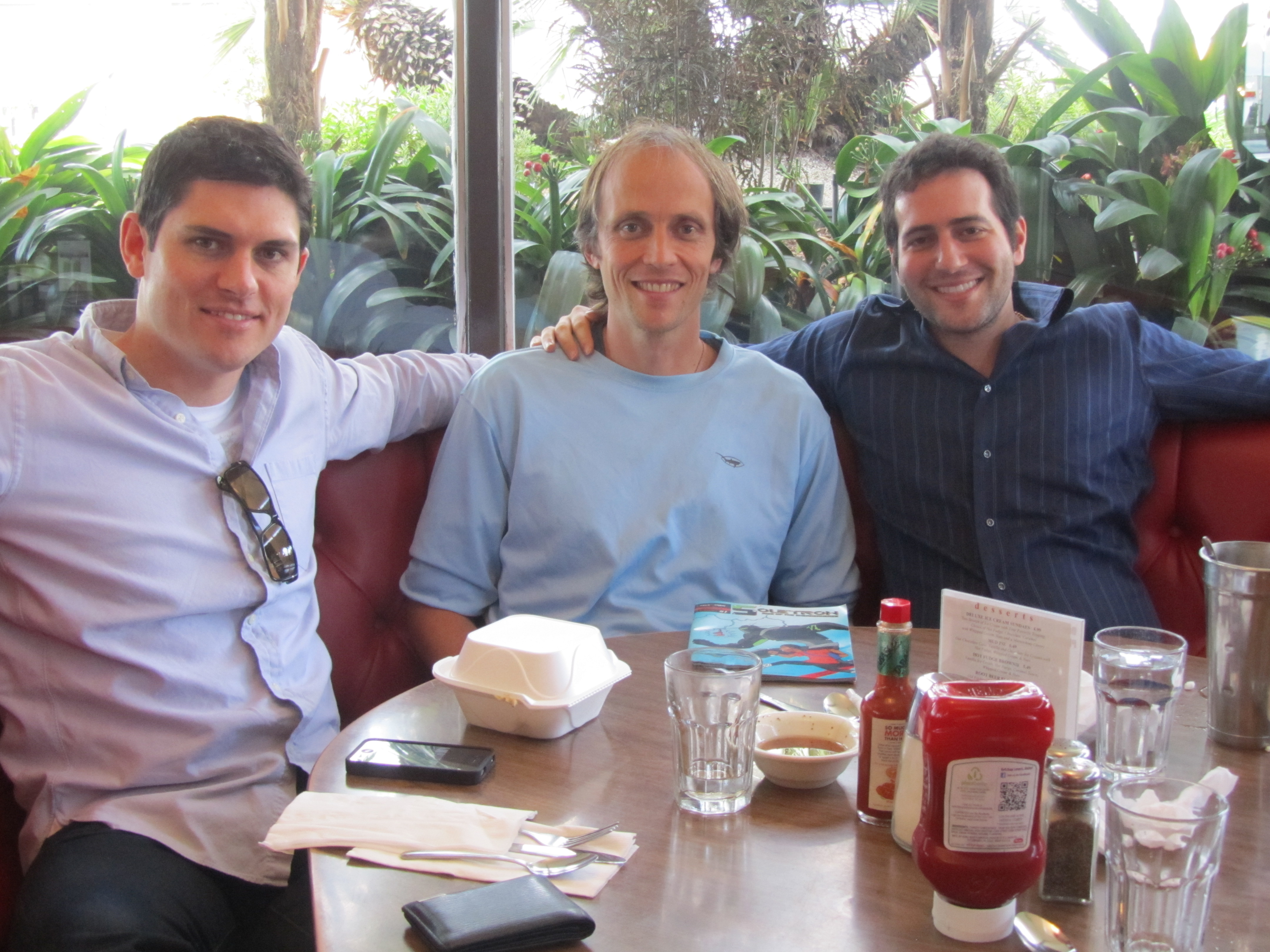 Soletron Founders eating lunch with Tom Austin